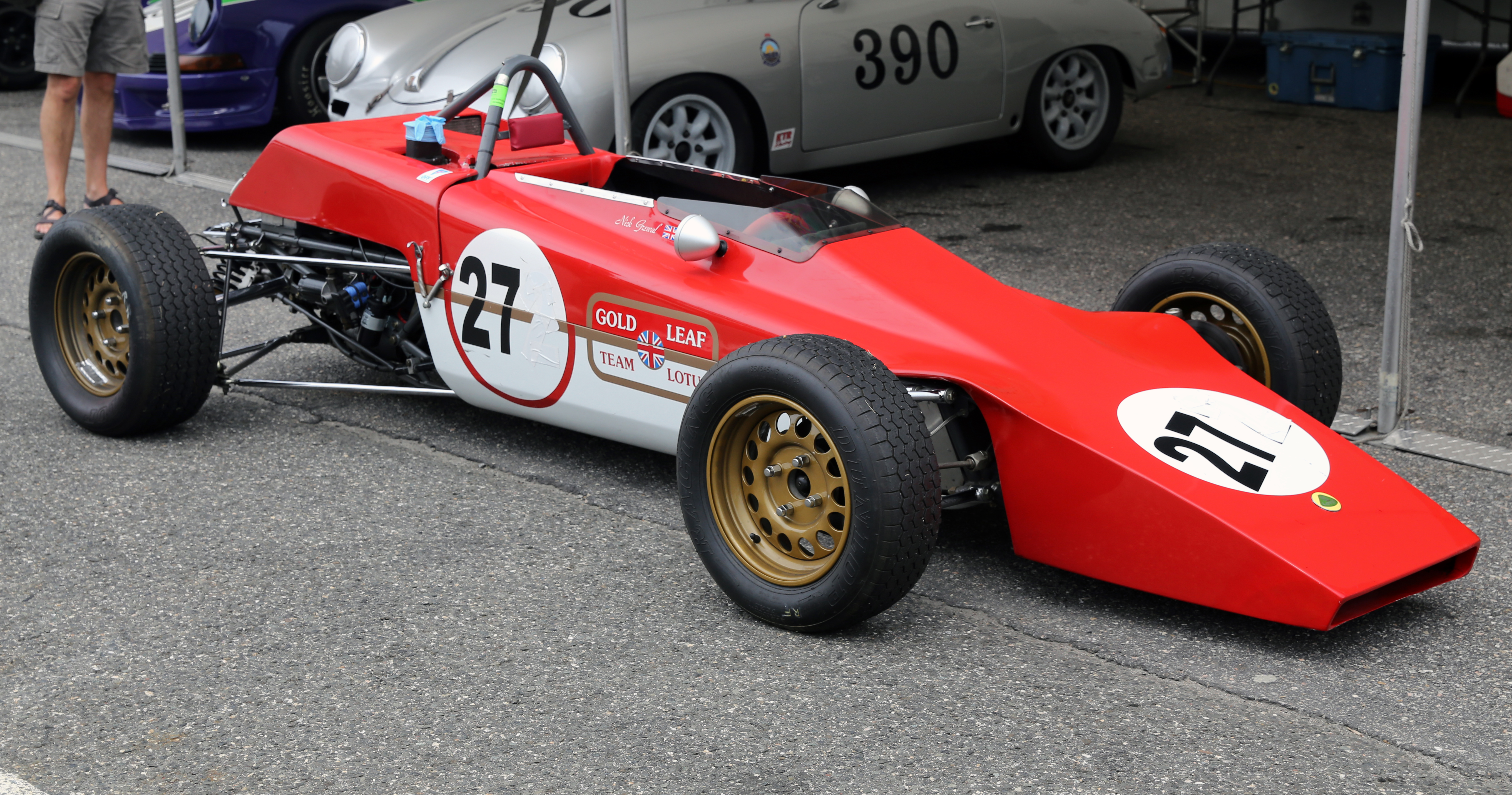 A 1969 Lotus 69 Formula Ford in the pits area at the 2014 Lime Rock Concours d'Élegance. Raced by Nick Grewal over this weekend, with number 272.